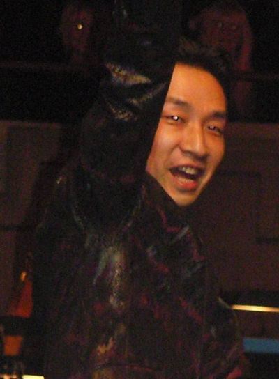 Akira Yamaoka takes the stage for Silent Hill